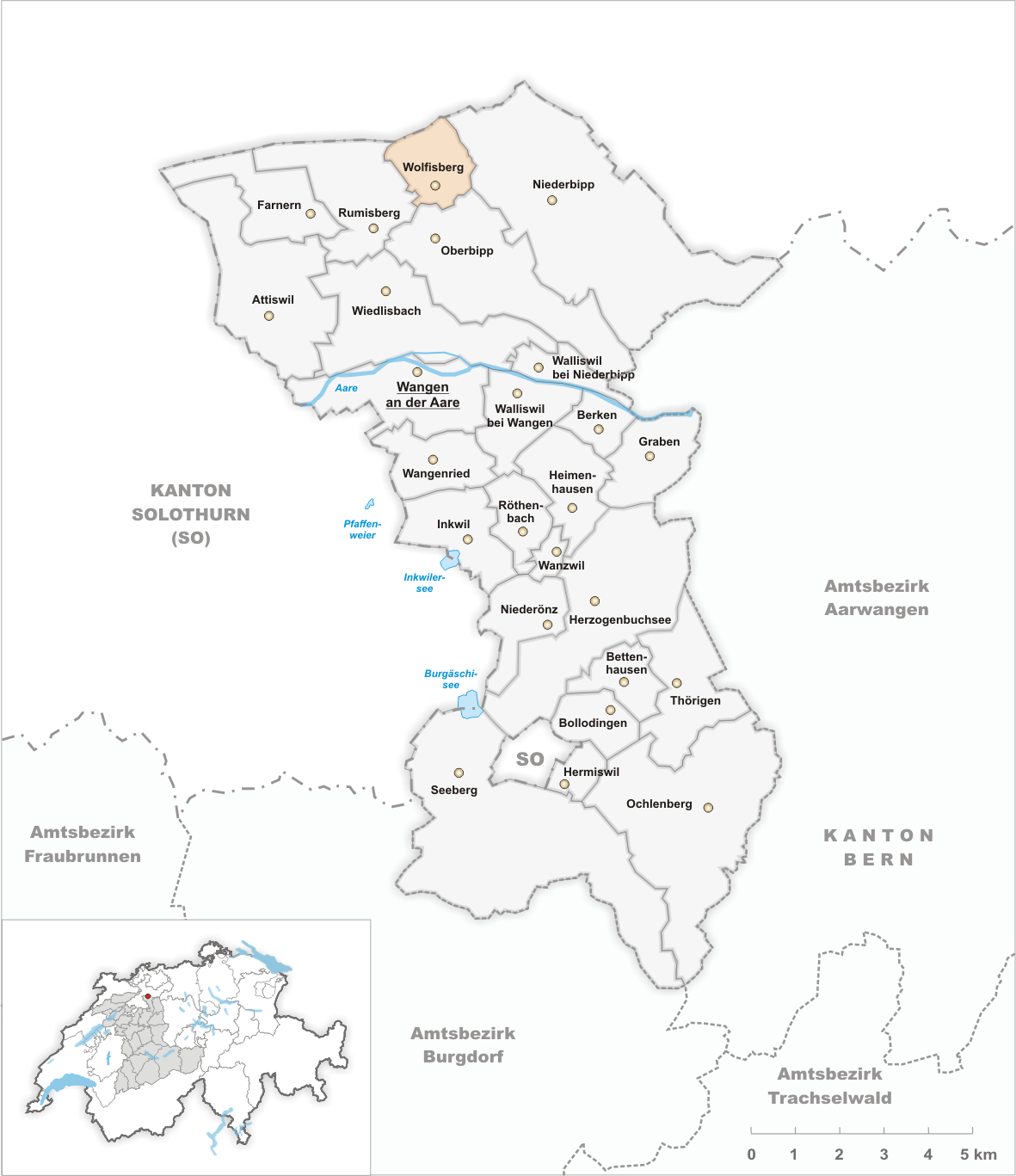 Municipality Wolfisberg